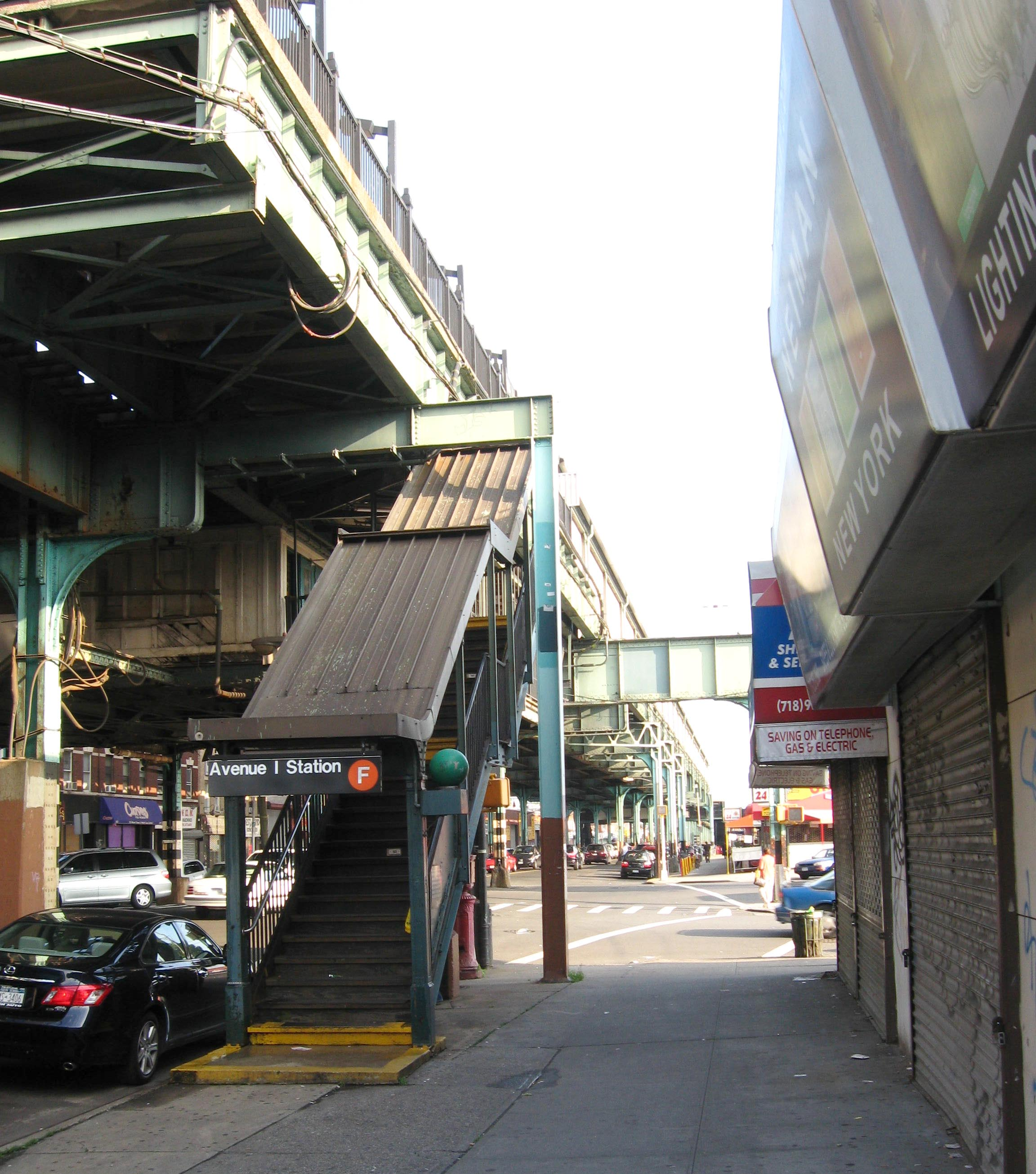 Looking southeast at western stair of Avenue I (IND Culver Line) station on a sunny summer afternoon. ZIP 11230.